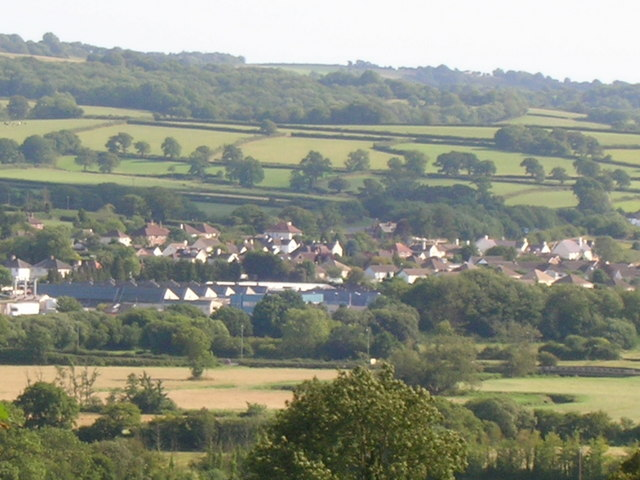 Axminster Carpets. The factory is seen clearly among the houses of Axminster. The picture is taken from Hunthay lane across the Axe Valley (SY 286 988). The River Axe can be seen meandering across the valley